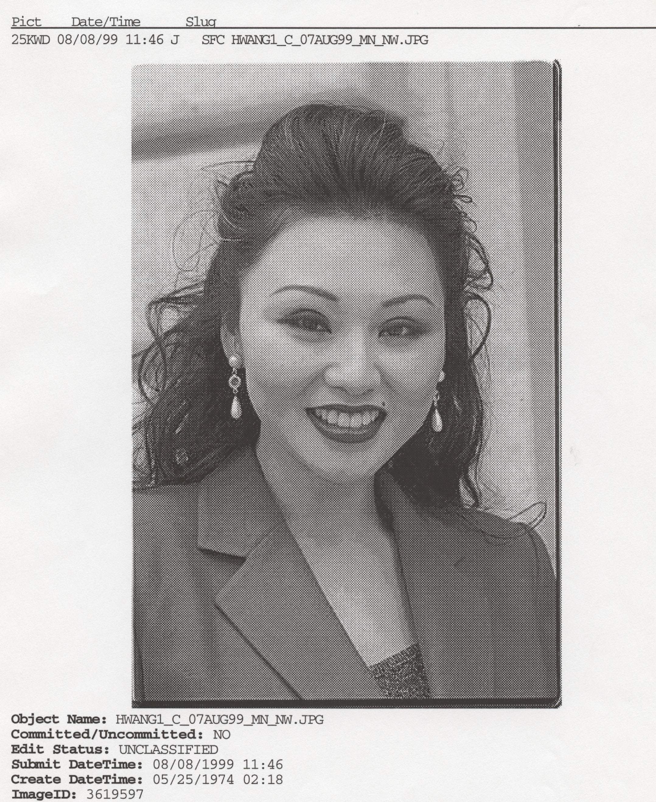 Low Resolution of Esther Hwang, 1999 in San Francisco, California.